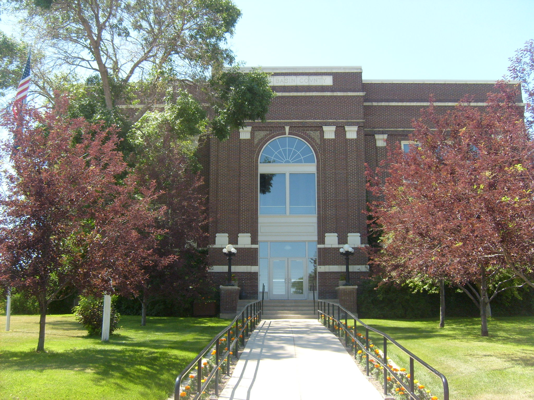 Stanford MT Judith Basin Courthouse